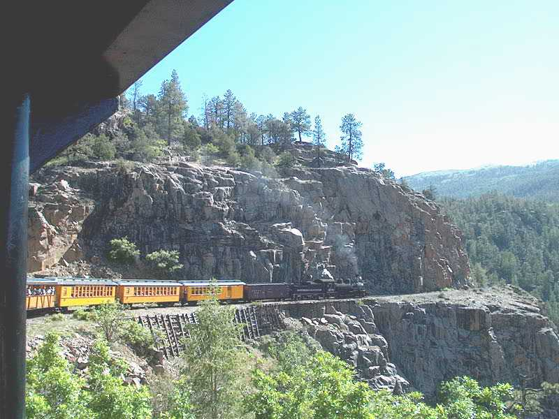 Durango and Silverton Narrow Gauge railway runs along the Highline.